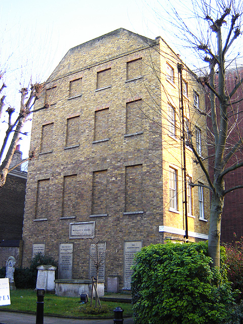 John Wesley's House, City Road, Shoreditch, London. 28 january 2006. Photographer: Fin Fahey.